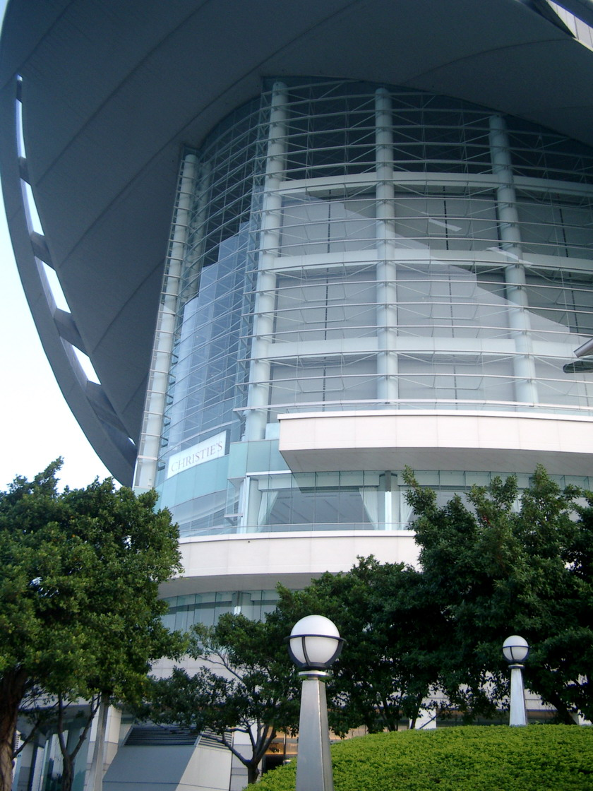 This photo was taken by User:Jepense on Sunday 27th November 2005.